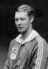 1976 Olympic Swimmers Mike Bruner & Steven Gregg & Billy Forrester Press Photo